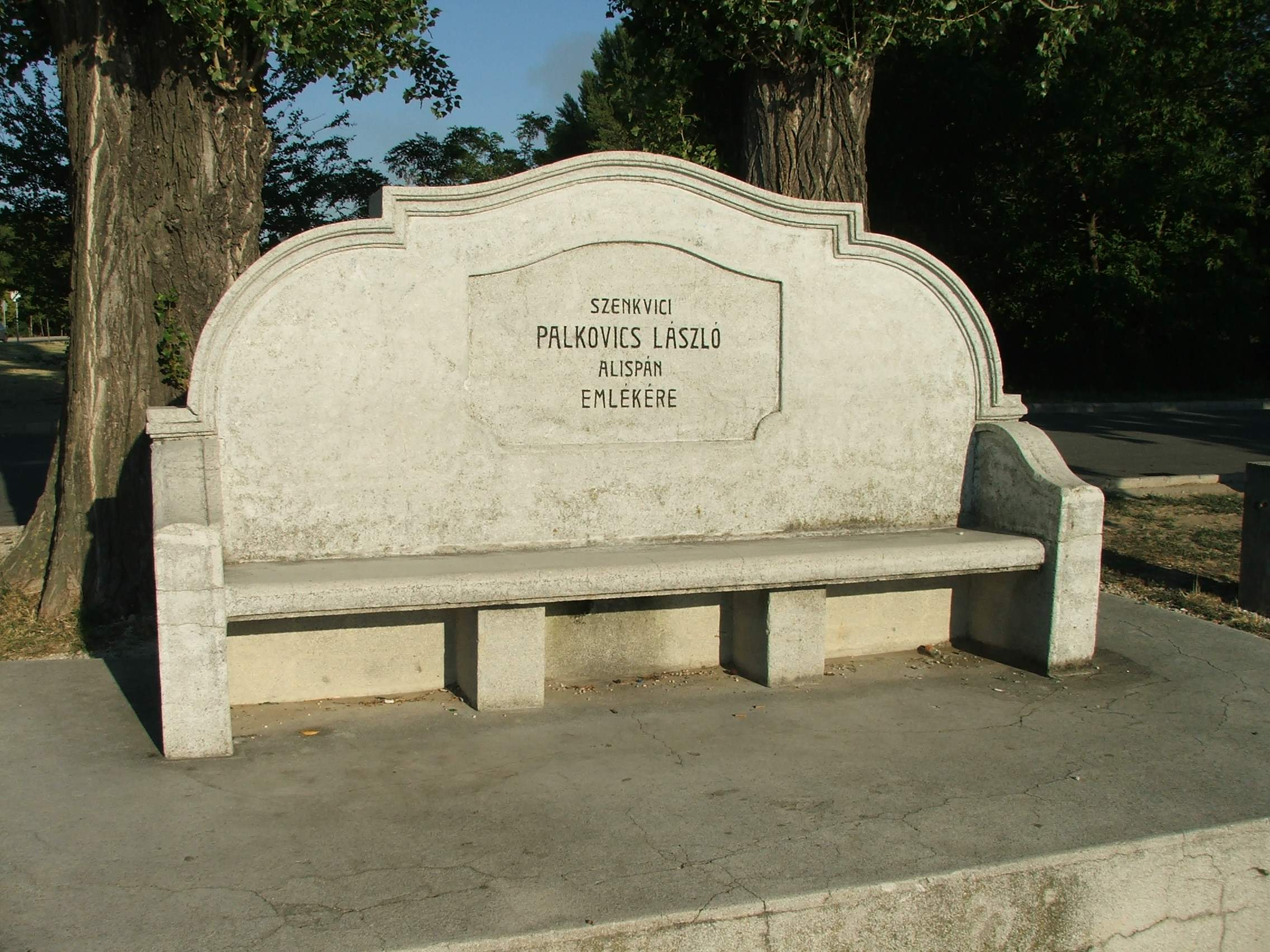 Palkovics-pad in Esztergom, Hungary